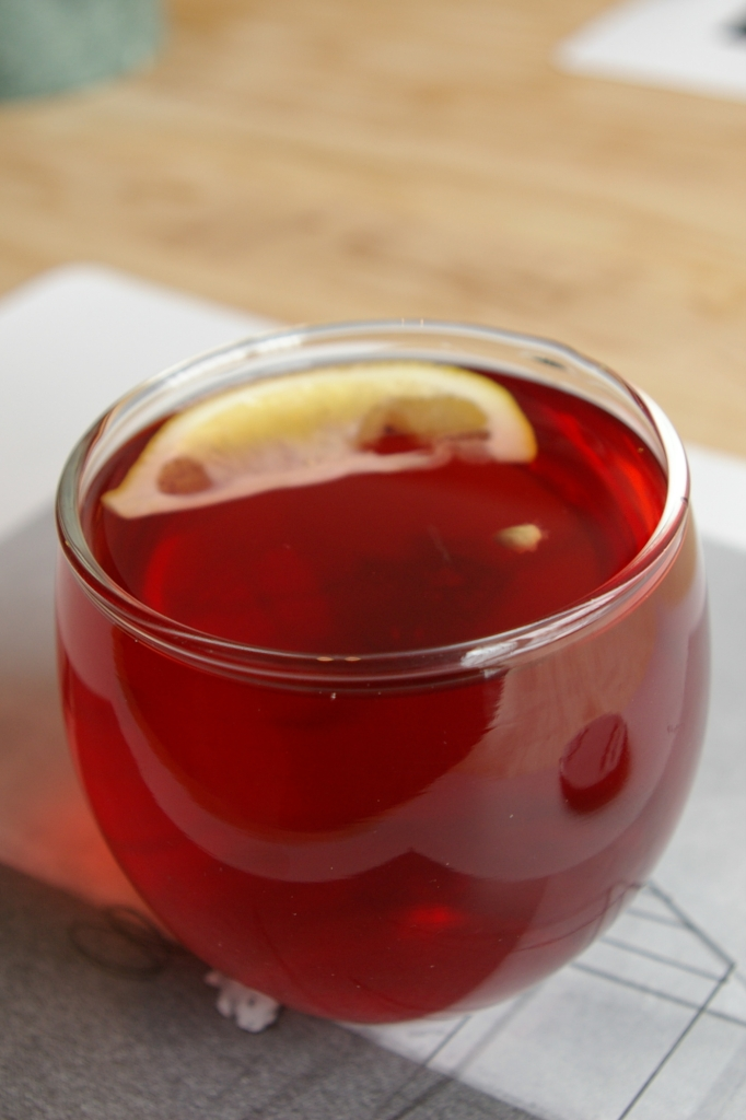 Dynamic dish does not yet have a coffee machine, so I had tea for breakfast for a change